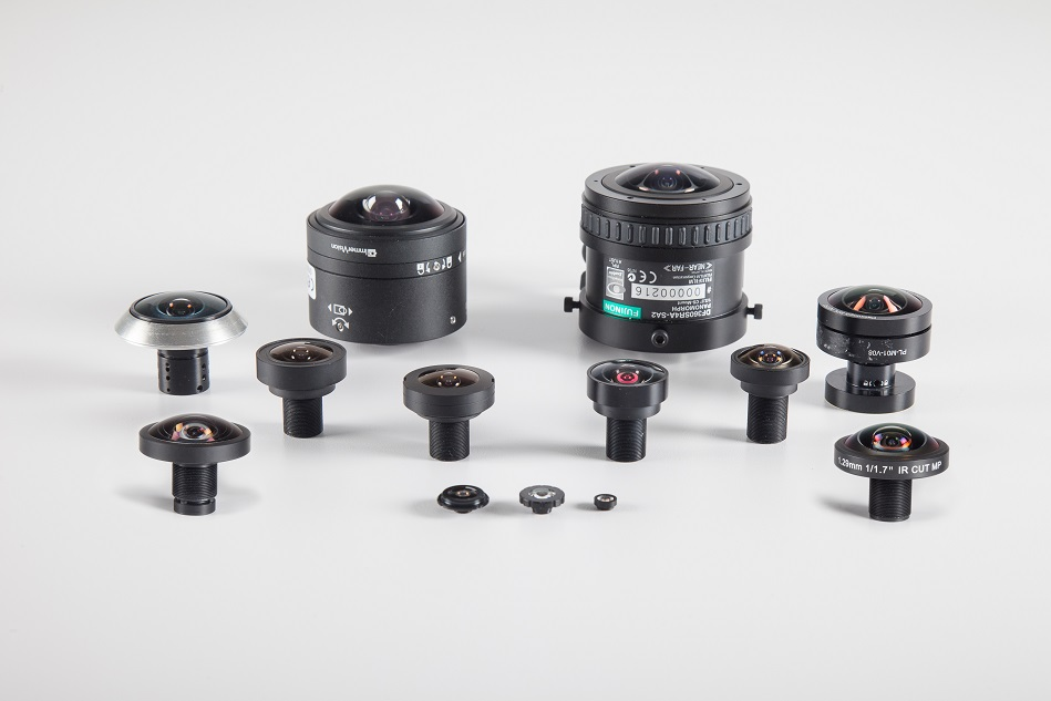 A variety of existing panomorph lenses.